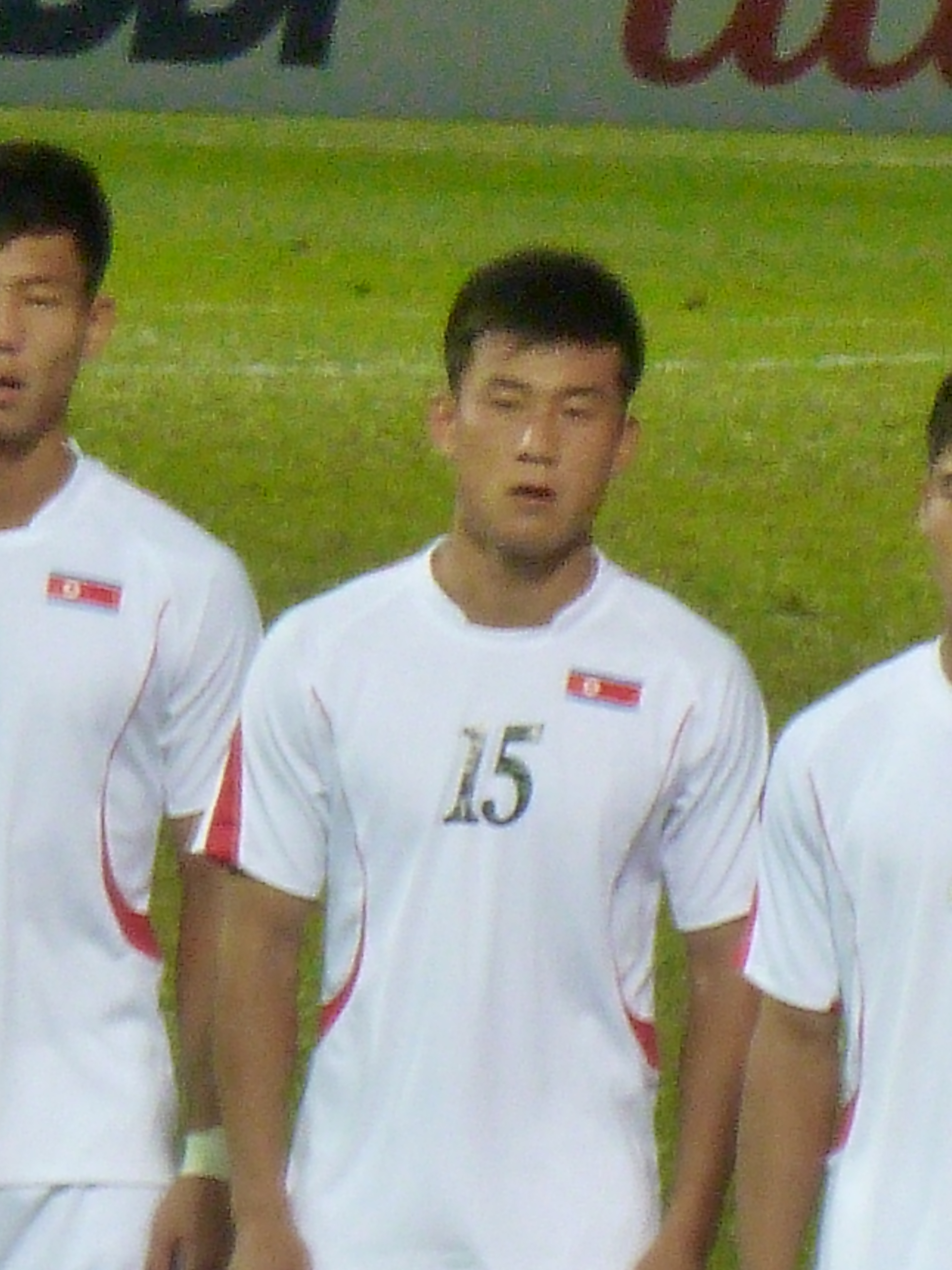 Kim Chol Bom (12 Nov 2016, EAFF E-1 Football Championship 2017 Round 2, Hong Kong vs North Korea, Mongkok Stadium) 中文（香港）: 金哲范 (12 Nov 2016, EAFF東亞足球錦標賽2017第二圈, 香港 vs 北韓, 旺角大球場)